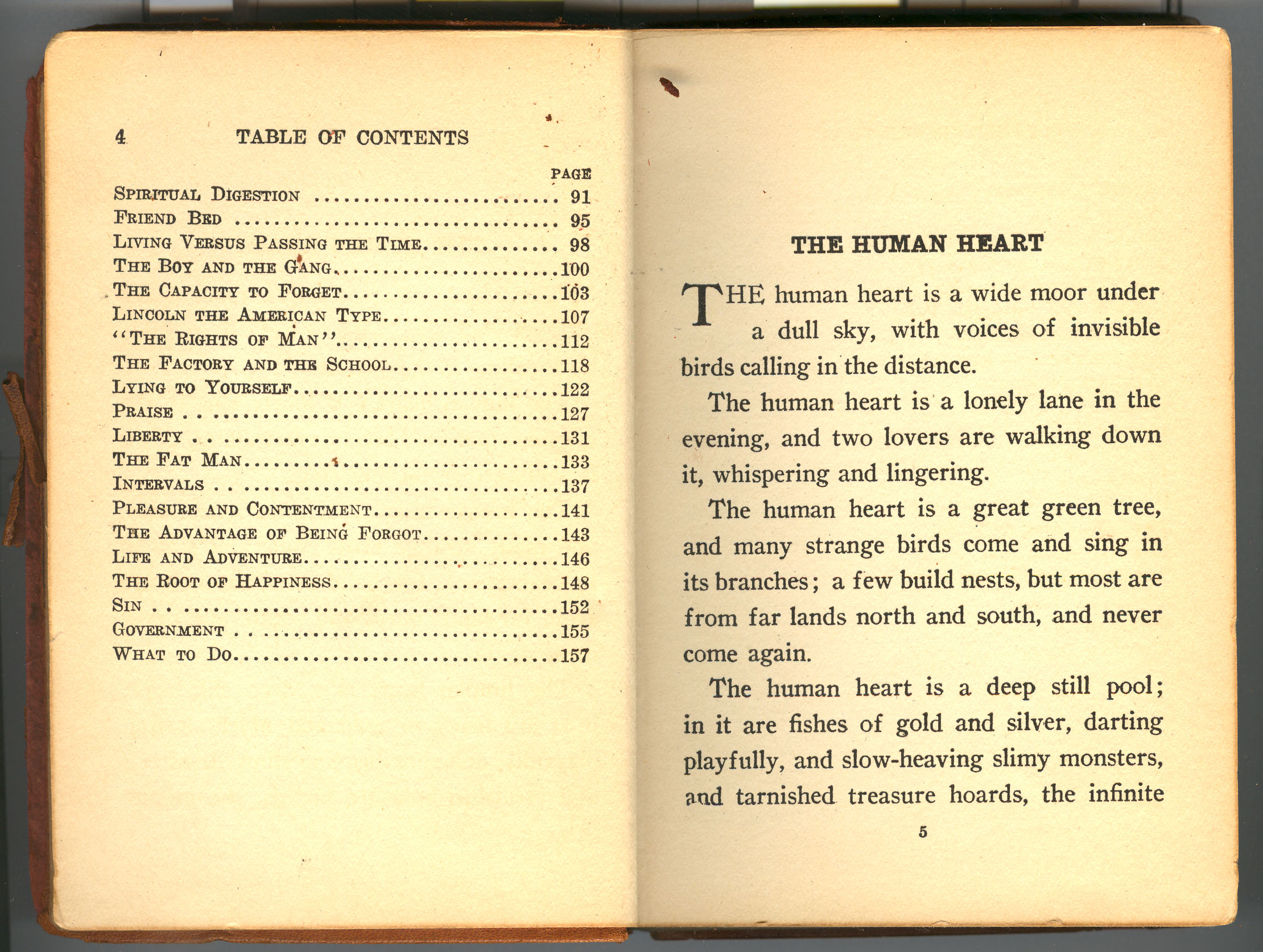 Four Minute Essays by Frank Crane (1919), page 4.